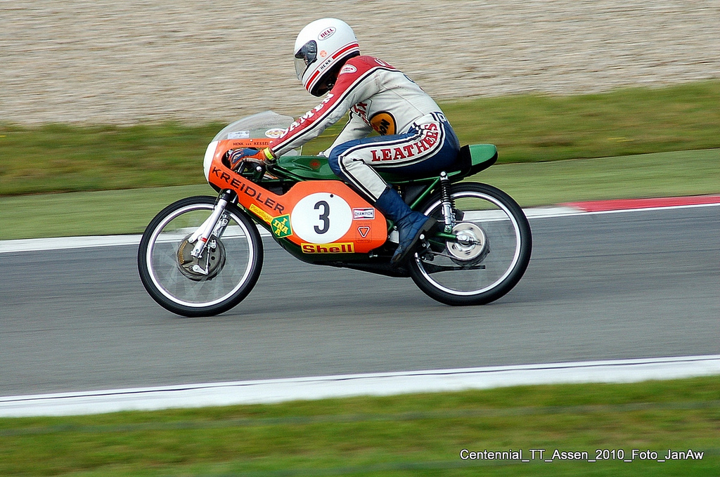 Henk van Kessel on a Kreidler at the 2010 Centennial Classic TT at Assen.